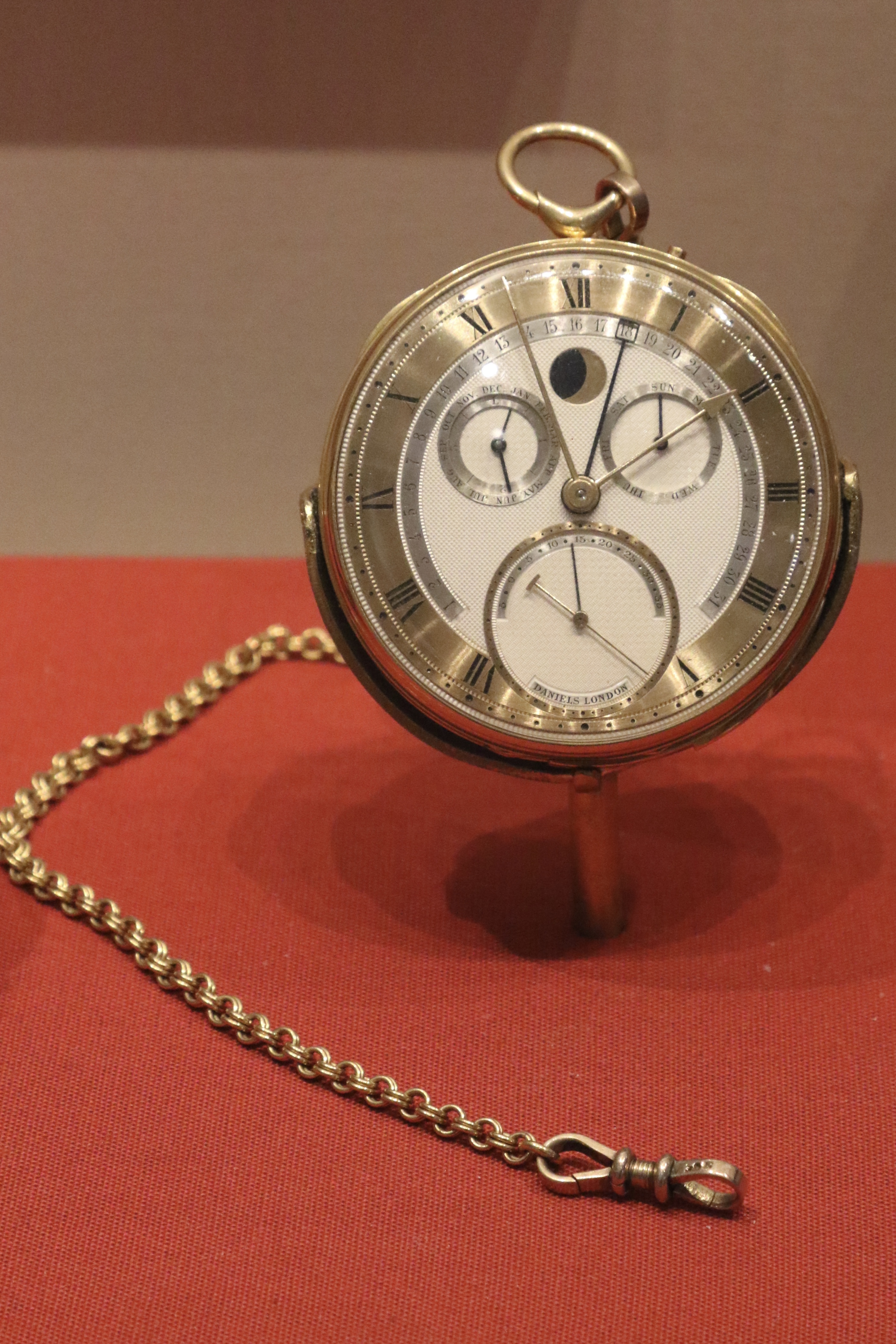 In the Worshipful Company of Clockmakers' Collection in the Science Museum, London